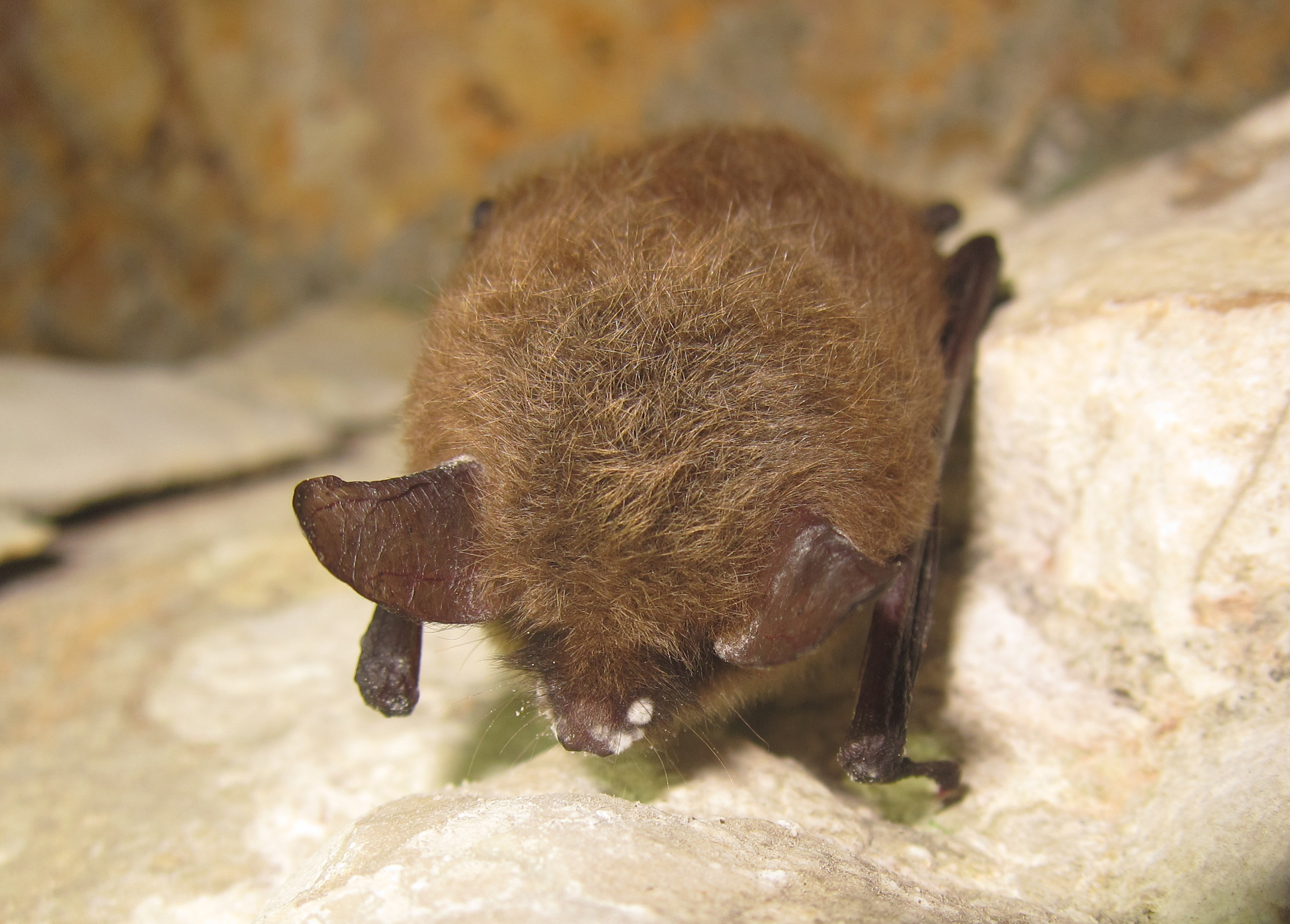 Myotis septentrionalis, northern myotis (Vespertilionidae) showing signs of White Nose Syndrome (WNS). LaSalle County, Illinois. January 2013 Photo credit: University of Illinois/Steve Taylor